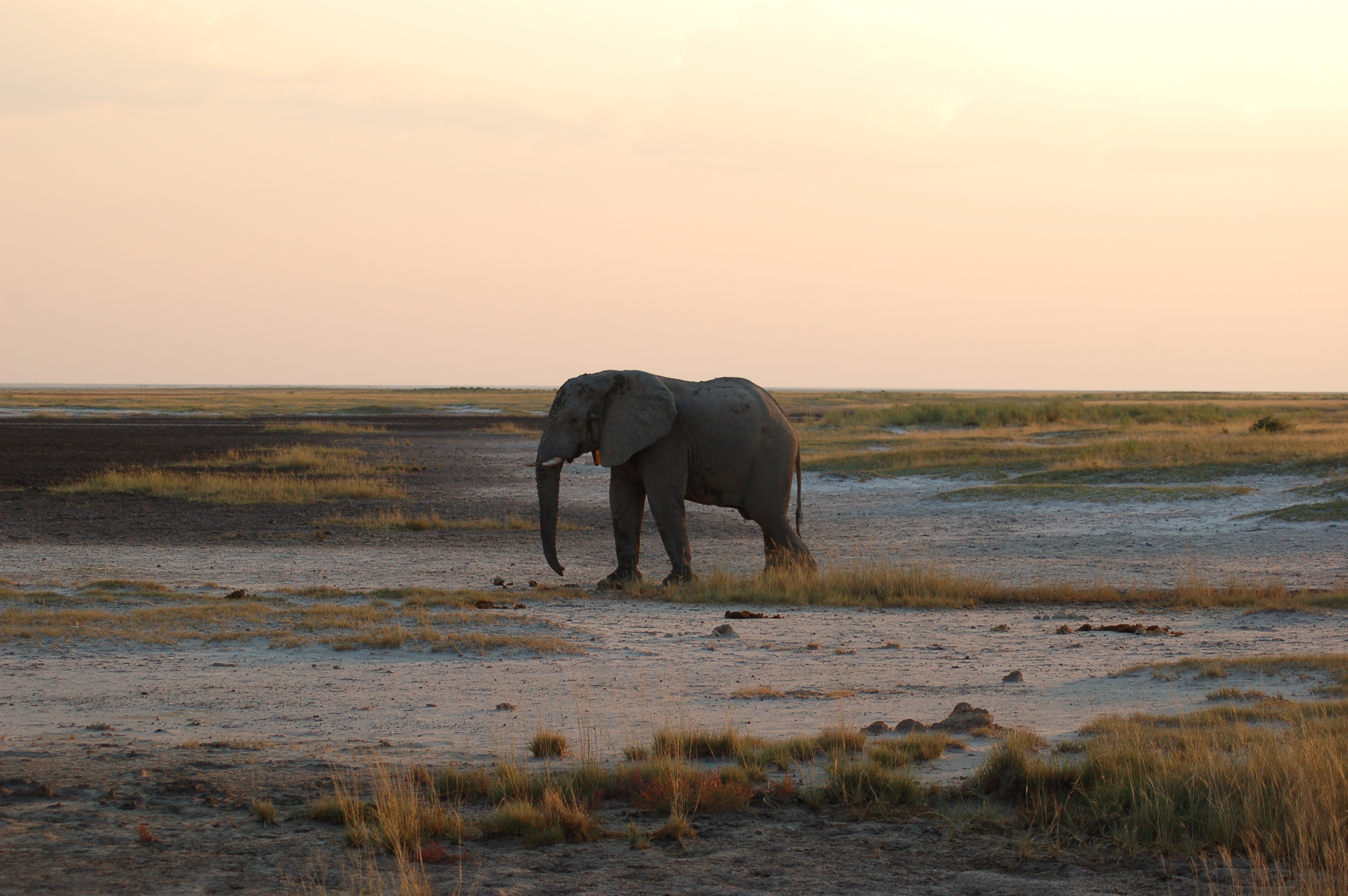 Etosha National Park, Namibia